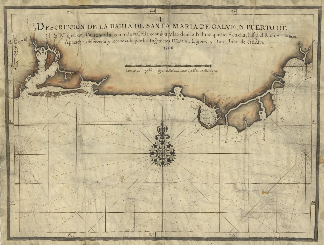 Early Spanish map of Pensacola Bay and areas immediately to the east. The Presidio Santa Maria de Galve (site of present-day Pensacola, Florida) is visible on the map's left, while San Luis de Apalachee (roughly present-day Tallahassee) is visible on the map's far right.